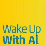 WUWA Logo